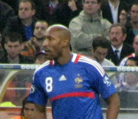 Nicolas Anelka during France-Colombia friendly match.